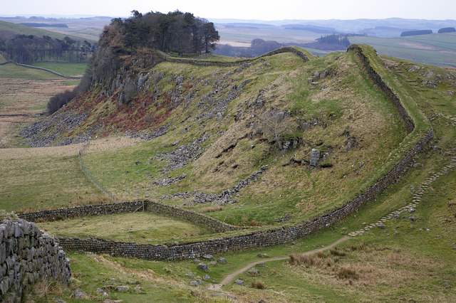 Hadrian's wall at Cuddy's Crags and Housesteads Crags